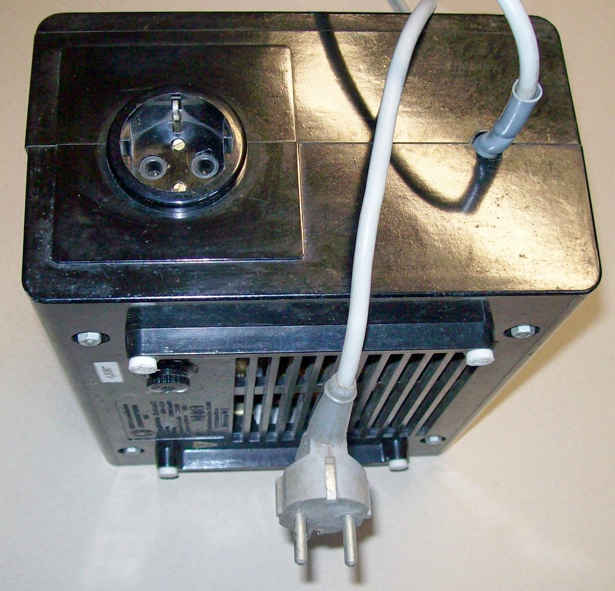 magnetic mains voltage constanter